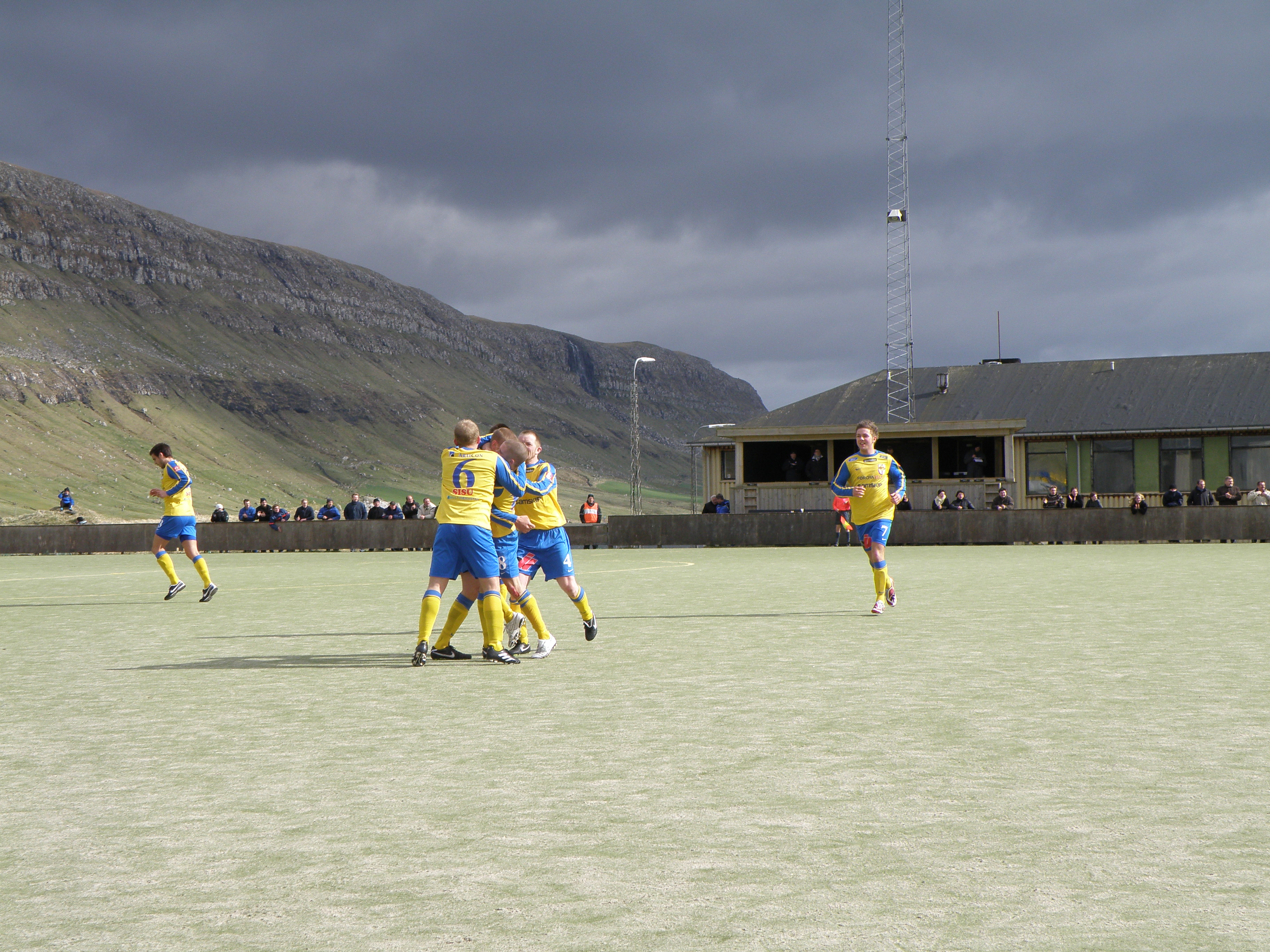 The football field of B71 Sandoy is Inni í Dal, which is halfway between Sandur and Skopun on the island Sandoy in the Faroe Islands. This photo was taken just after B71 Sandoy scored a goal against FC Suðuroy in Vodafonedeildin (The Faroese Premier League). Føroyskt: Inni í Dal á Sandoynni. Vodafonedystur millum B71 og FC Suðuroy 3-1. Dysturin varð spældur 2. mai 2010.